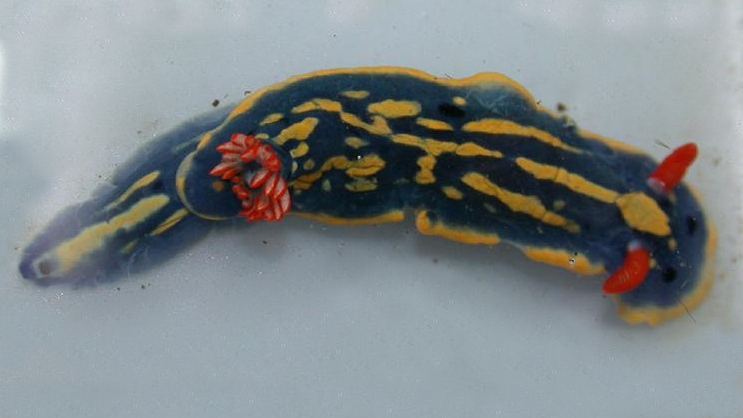 Hypselodoris festiva (Chromodorididae, Gastropoda) Japanese name: Aoumiusi. Locality: Tenjinzaki, Tanabe city, Wakayama prefecture, Japan